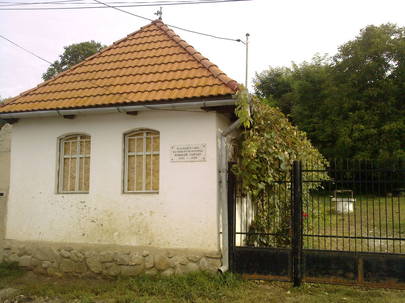 Romulus Cioflec Memorial House, Araci, Covasna County, Romania